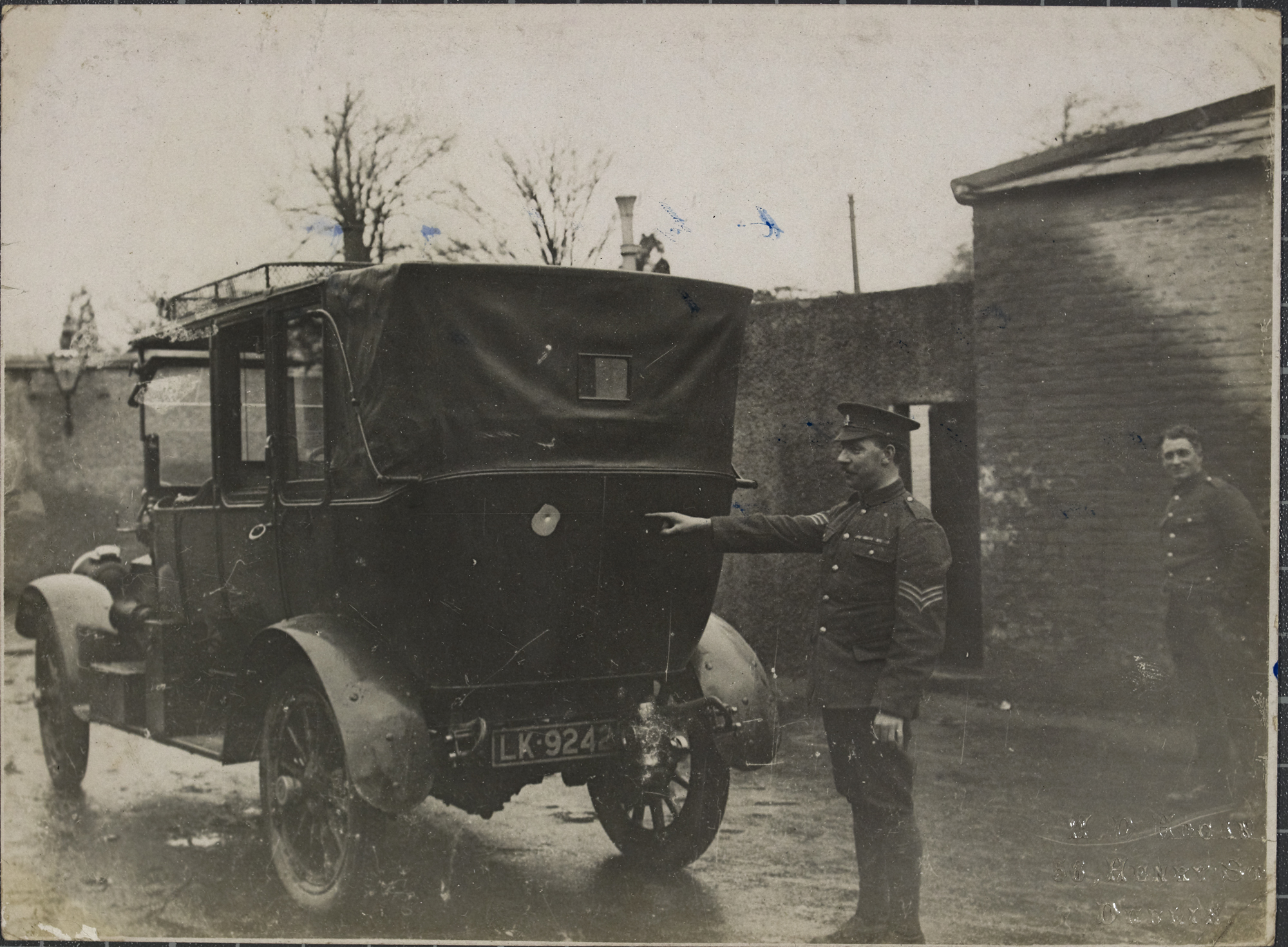 The car in which Lord French was ambushed: sergeant pointing out bullet hole. On 19 December 1919: The IRA attempted to assassinate the British Lord Lieutenant Lord French. The attack was carried out at Ashtown, in County Dublin. The IRA had been trying to assassinate Lord French for about three months. The IRA ambush party consisted of Mick McDonnell, Tom Kehoe, Martin Savage (killed in the action), Sean Tracey, Seamus Robinson, Sean Hogan, Paddy Daly (leader), Vincent Byrne, Tom Kilkoyne, Joe Leonard, and Dan Breen. Two Dublin Metropolitan Policemen (D/Sgt Halley and Constable O'Loughlin), the driver of the second car (McEvoy) and one of the attackers (Dan Breen) were wounded. The LK registration must have been an import from the UK. Photographer: W. D. Hogan Collection: [#//catalogue.nli.ie/Author/Home?author=Hogan-Wilson%20Collection Hogan-Wilson Collection ], Date: A day or two after 19th December 1919 NLI Ref.: HOGW 125 You can also view this image, and many thousands of others, on the NLI’s catalogue at